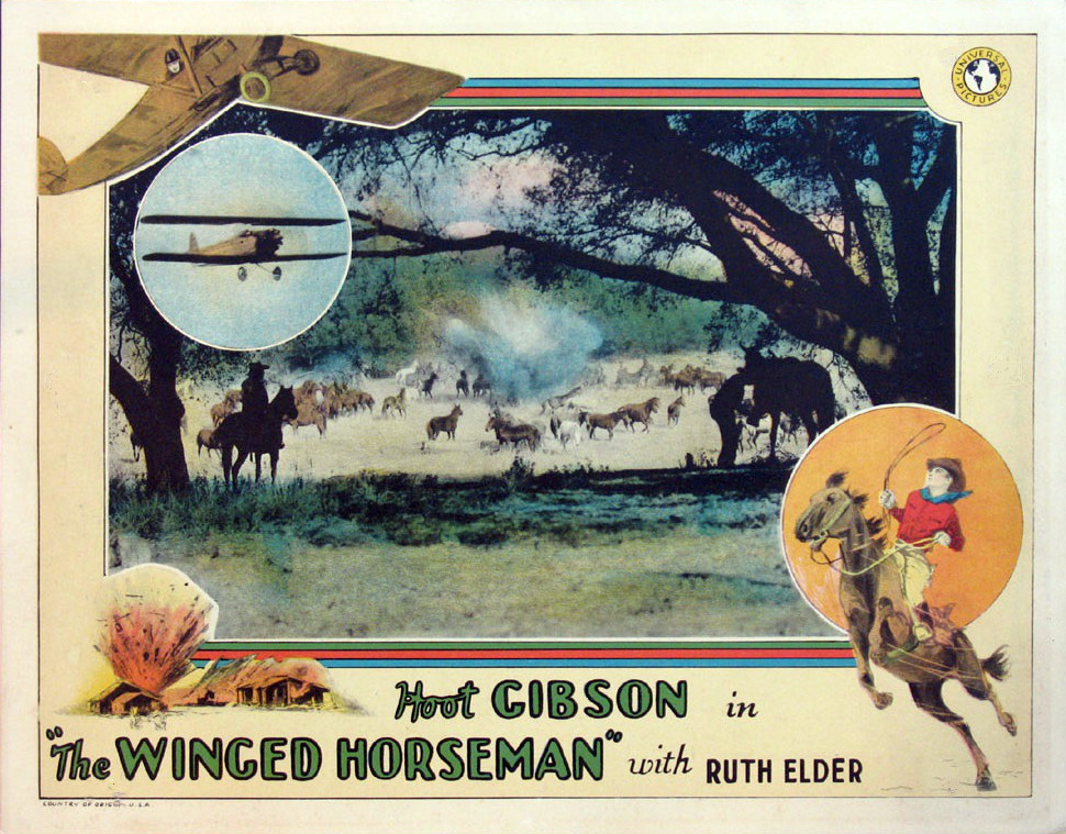 Lobby card for the 1929 film The Winged Horseman. The item has no copyright markings on it as can be seen in the link above. At bottom left is Country of Origin USA.